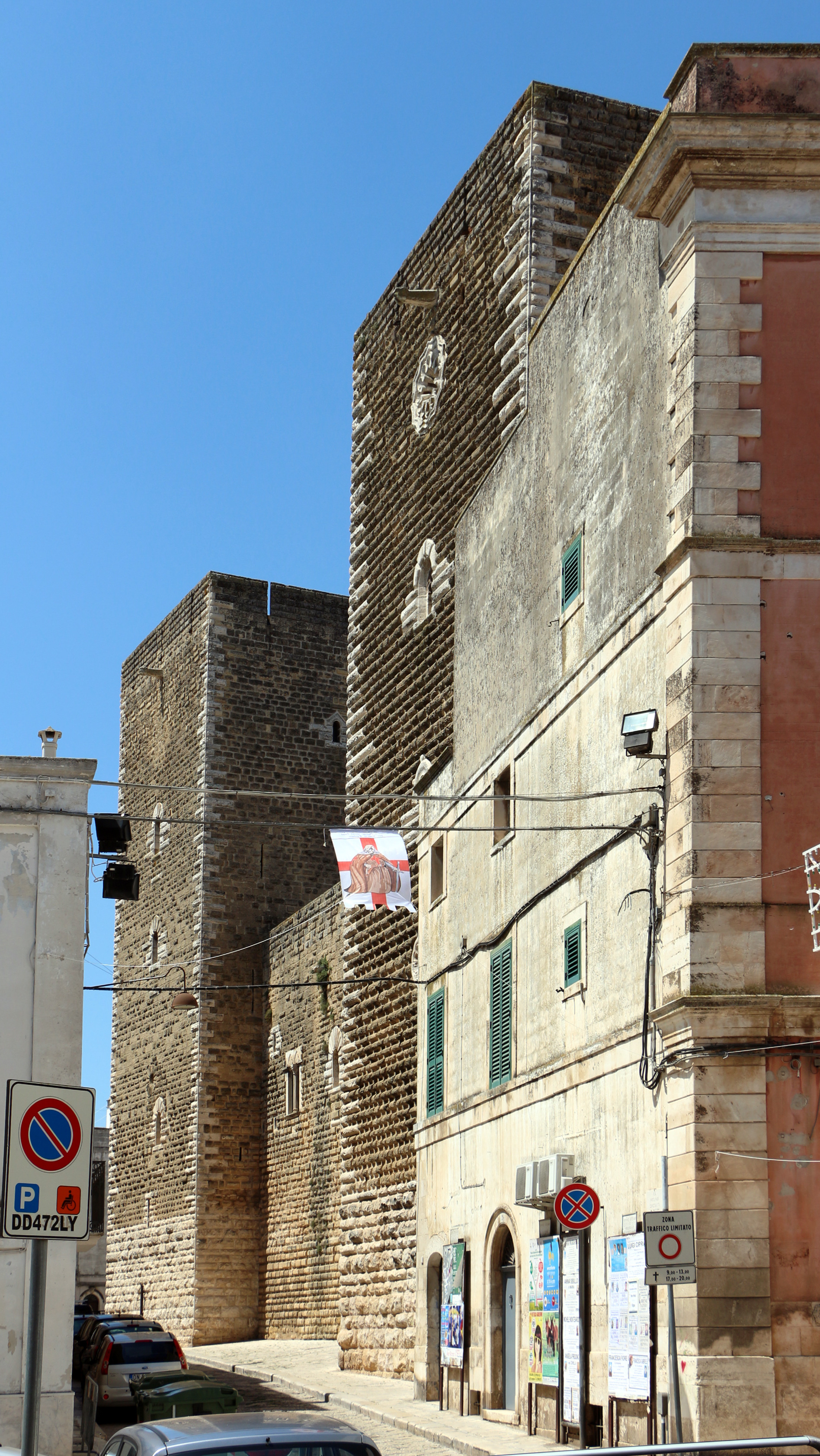 Castello normanno-svevo (Gioia del Colle)